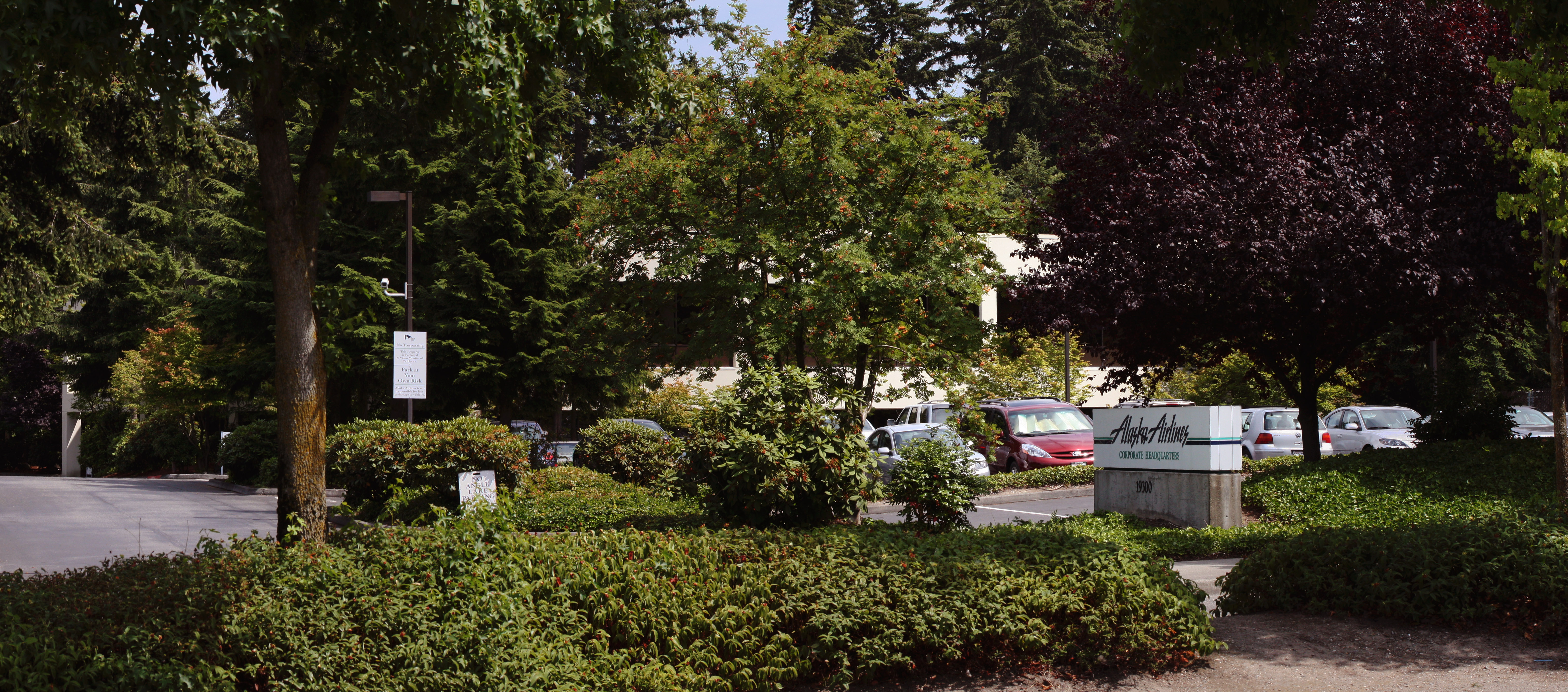 Alaska Airlines Corporate Headquarters; main building; sign reads "Alaska Airlines Corporate Headquarters" This image was created with Hugin.